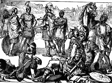 Meeting of Hannibal and Scipio at Zama